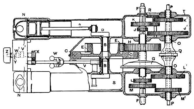 Engine and gearbox of a James and Browne automobile, circa 1902, sectioned horizontally to show mechanical layout. I'll attempt to provide a key below.